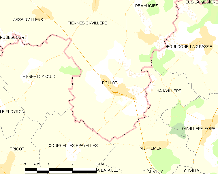 Map of French municipality Rollot